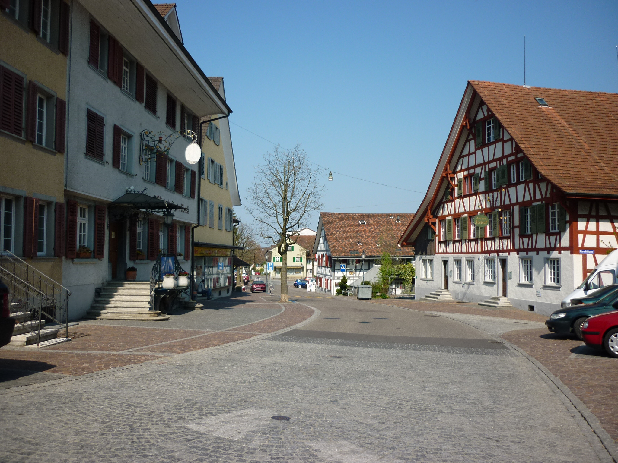 Old town center of Oberwinterthur ZH, Switzerland